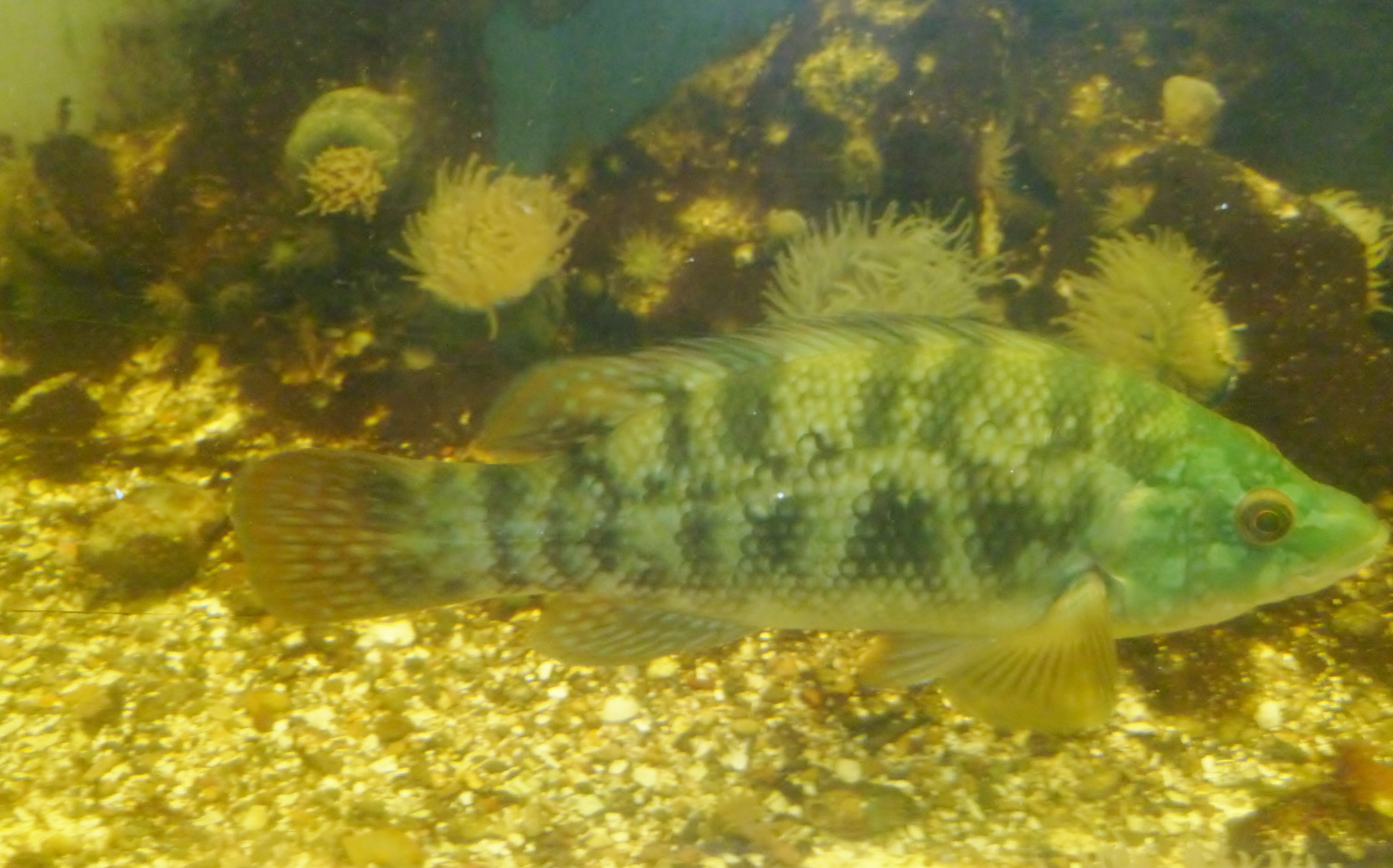 corkwing wrasse, Symphodus melops (Linnaeus, 1758); family Labridae; photo made in an aquarium, Ostend, Belgium